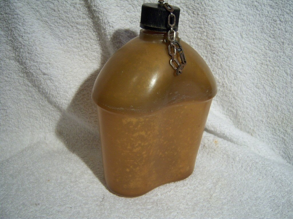 A fairly large number of these canteens were integrated as an experiment, along with standard aluminum canteens during WWII. They are not extremely rare. I've been told they were an experiment and the US Army was considering totally replacing aluminum canteens with plastic ones. In fact, during Vietnam, they actually did switch to plastic canteens, although they were larger and shaped different and were not partly transparent as these are. As you know, camel backs have now made canteens obsolete, although a few individuals continue to carry them as a personal preference.M. Bando/Trigger Time